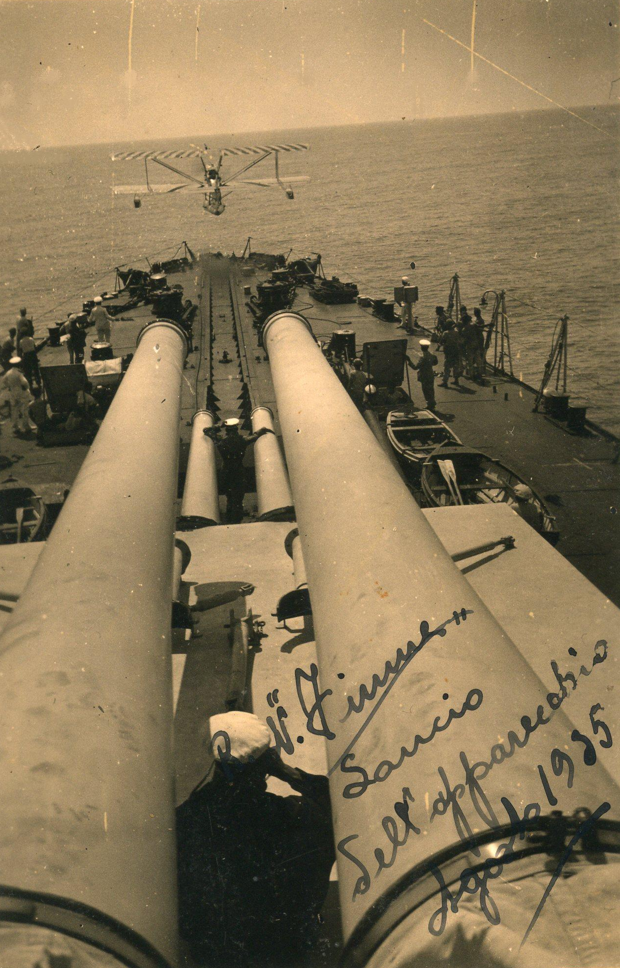 Italian heavy cruiser Fiume launching a seaplane in 1935